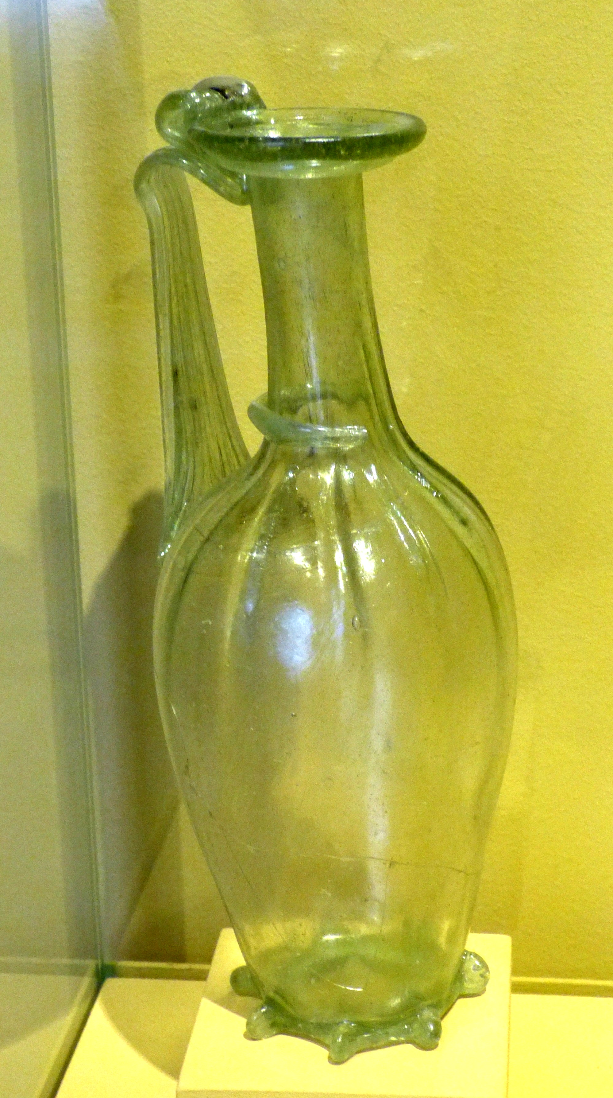 Straubing ( Lower Bavaria ). Gäubodenmuseum: Ancient Roman glass jug, from the grave of a woman in cemetery Azlburg II.